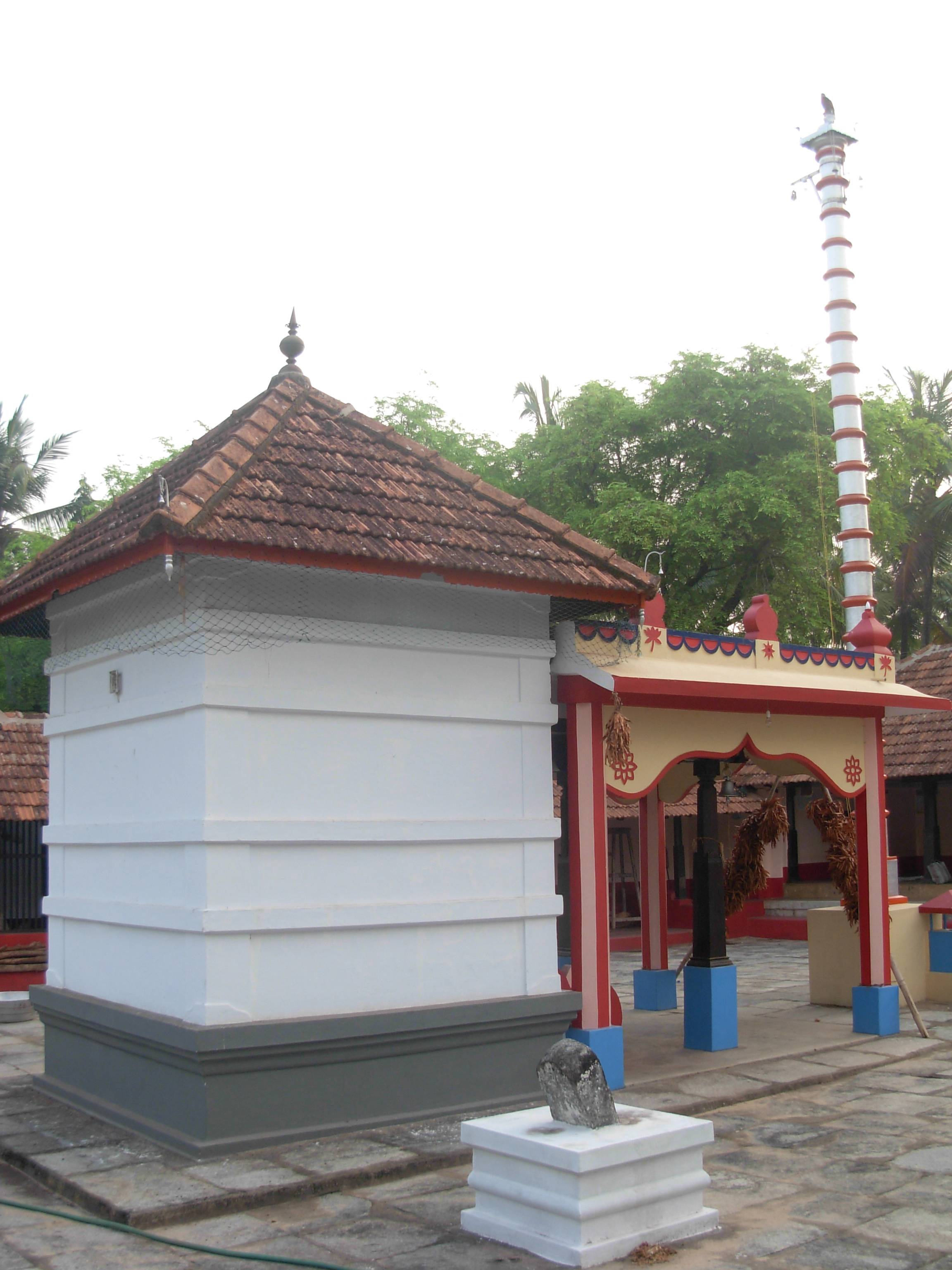 Bobbariya Temple at Surathkal